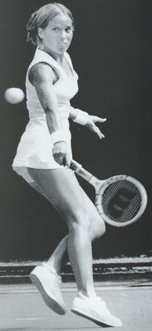 Action photo of Linda tuero Lindsley playing tennis